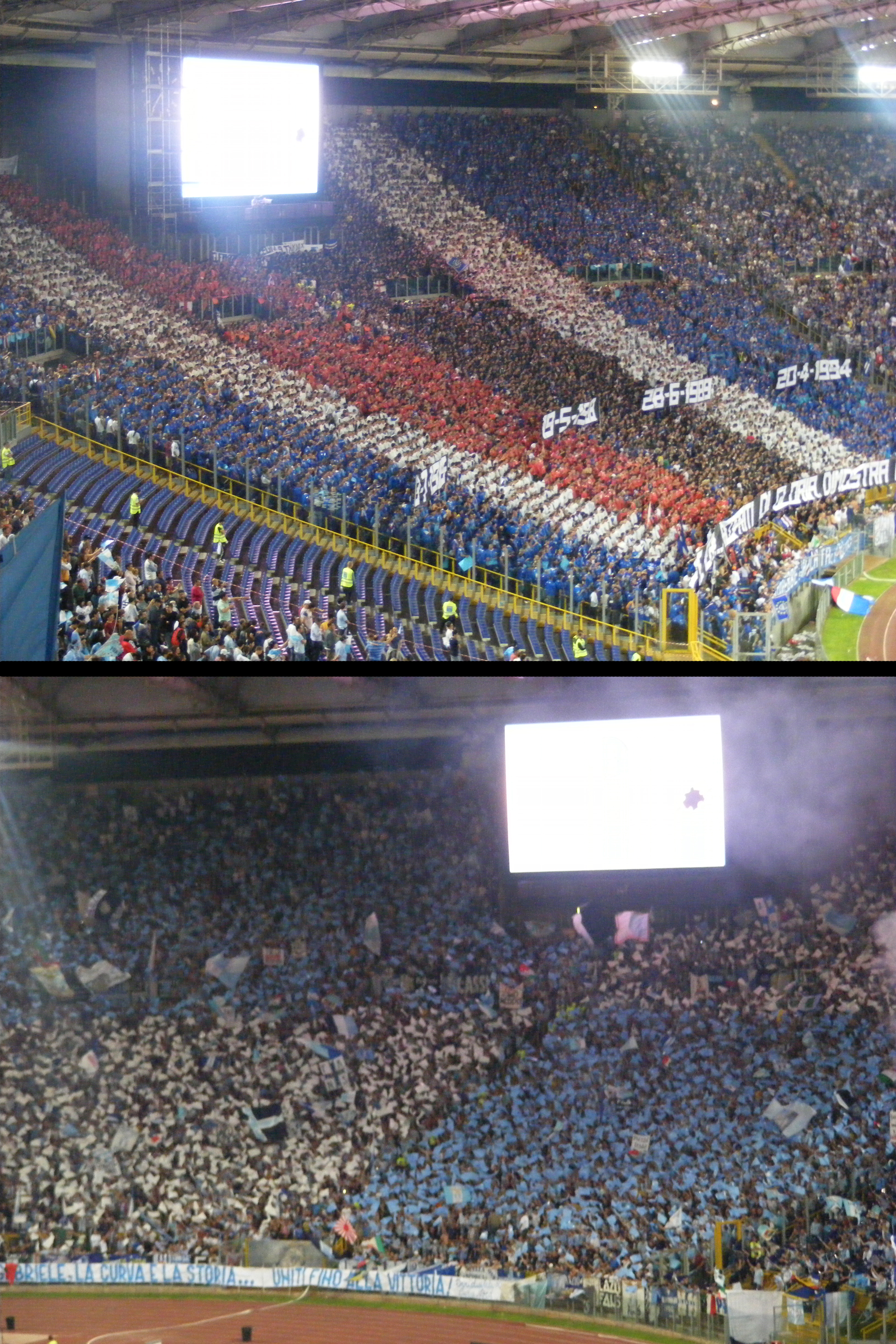 Supporters during Lazio-Sampdoria